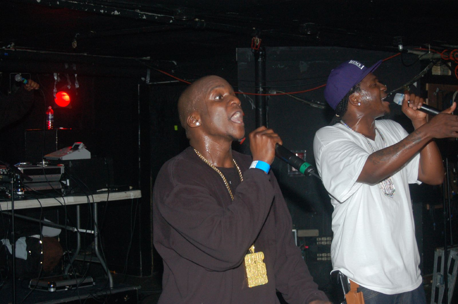 Clipse at The Middle East nightclub in Cambridge, Massachusetts.